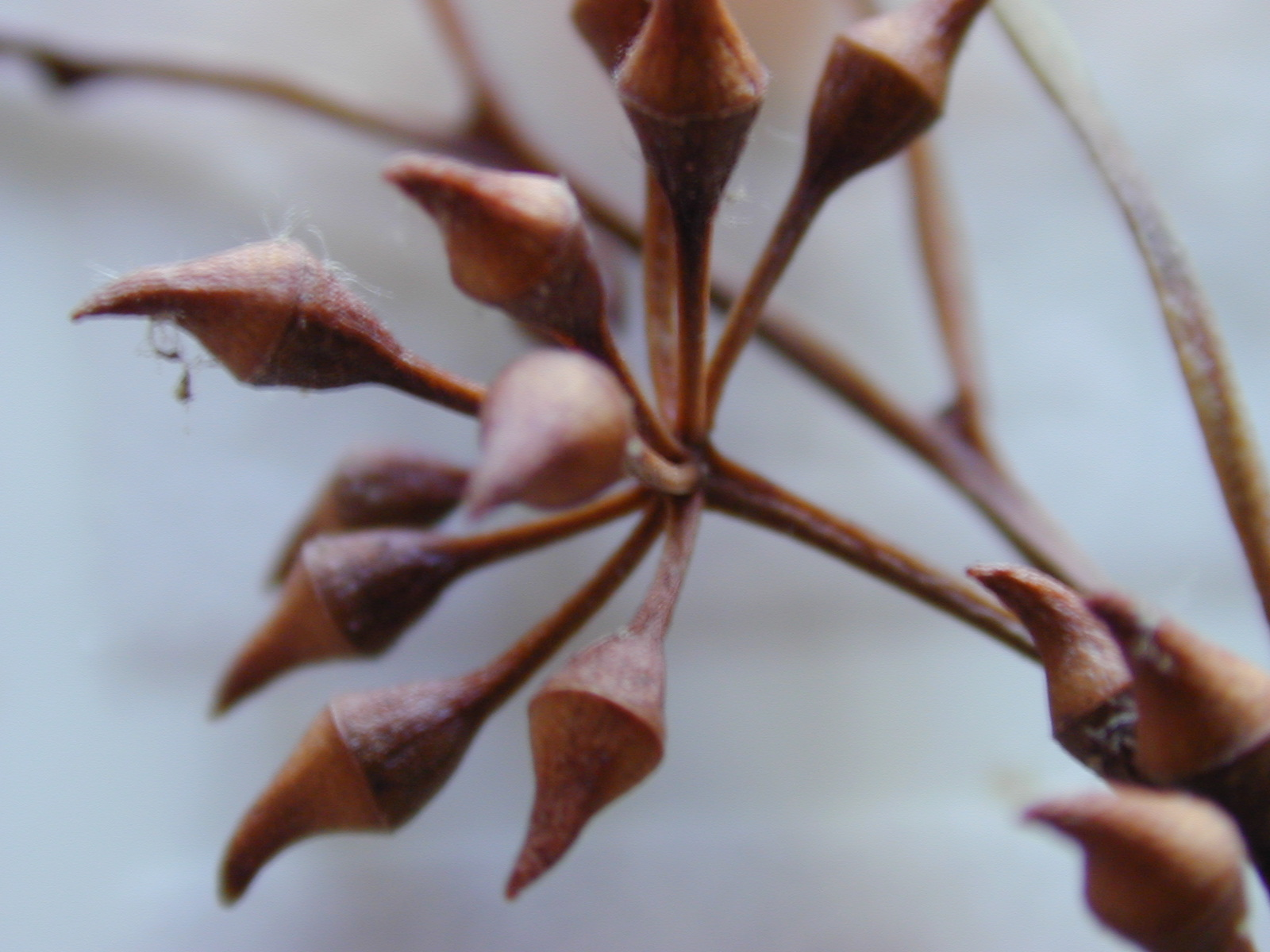 Eucalyptus camaldulensis (operculums). Location: Maui, Hobdy collection